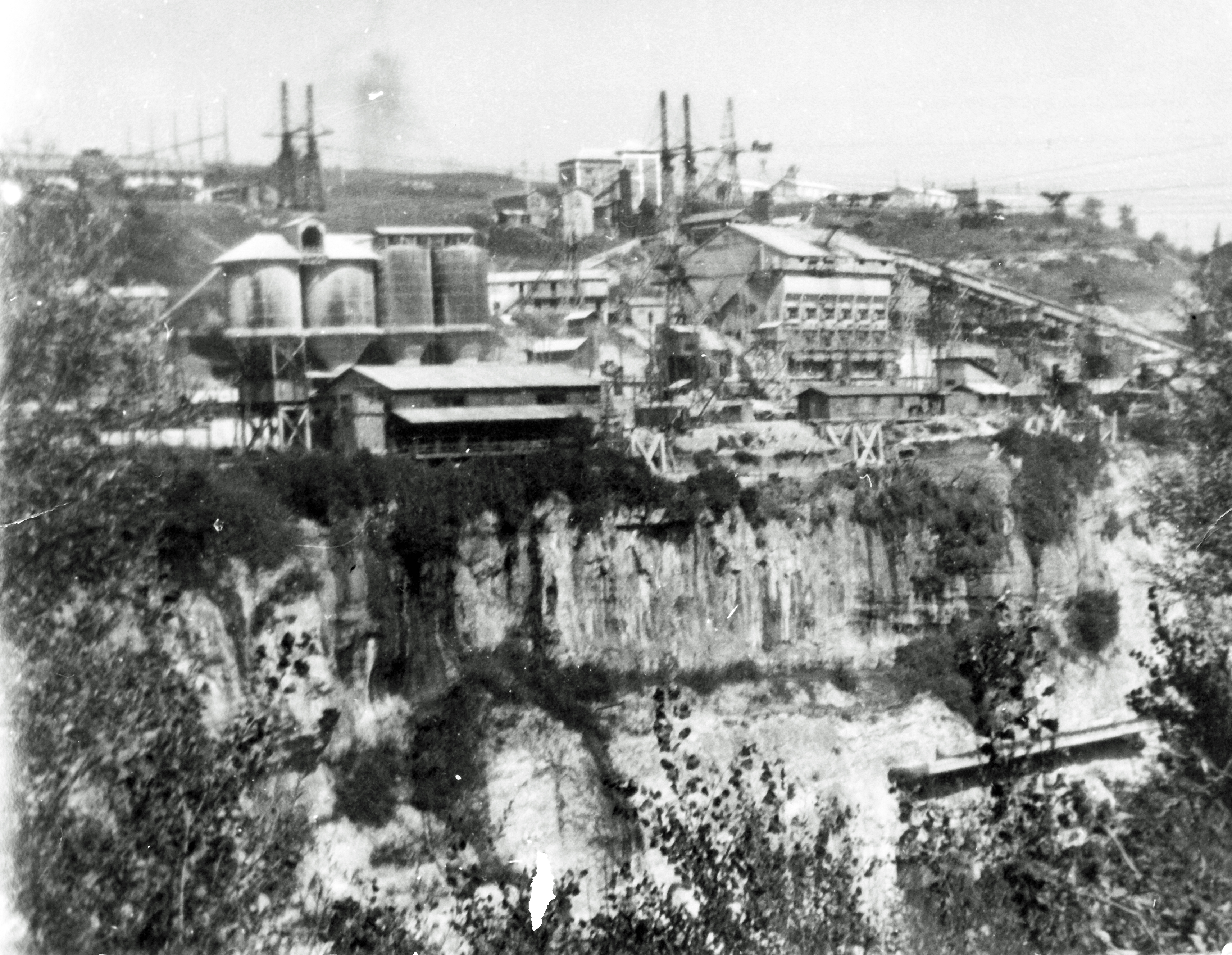 Development of the plateau during the construction of the dam